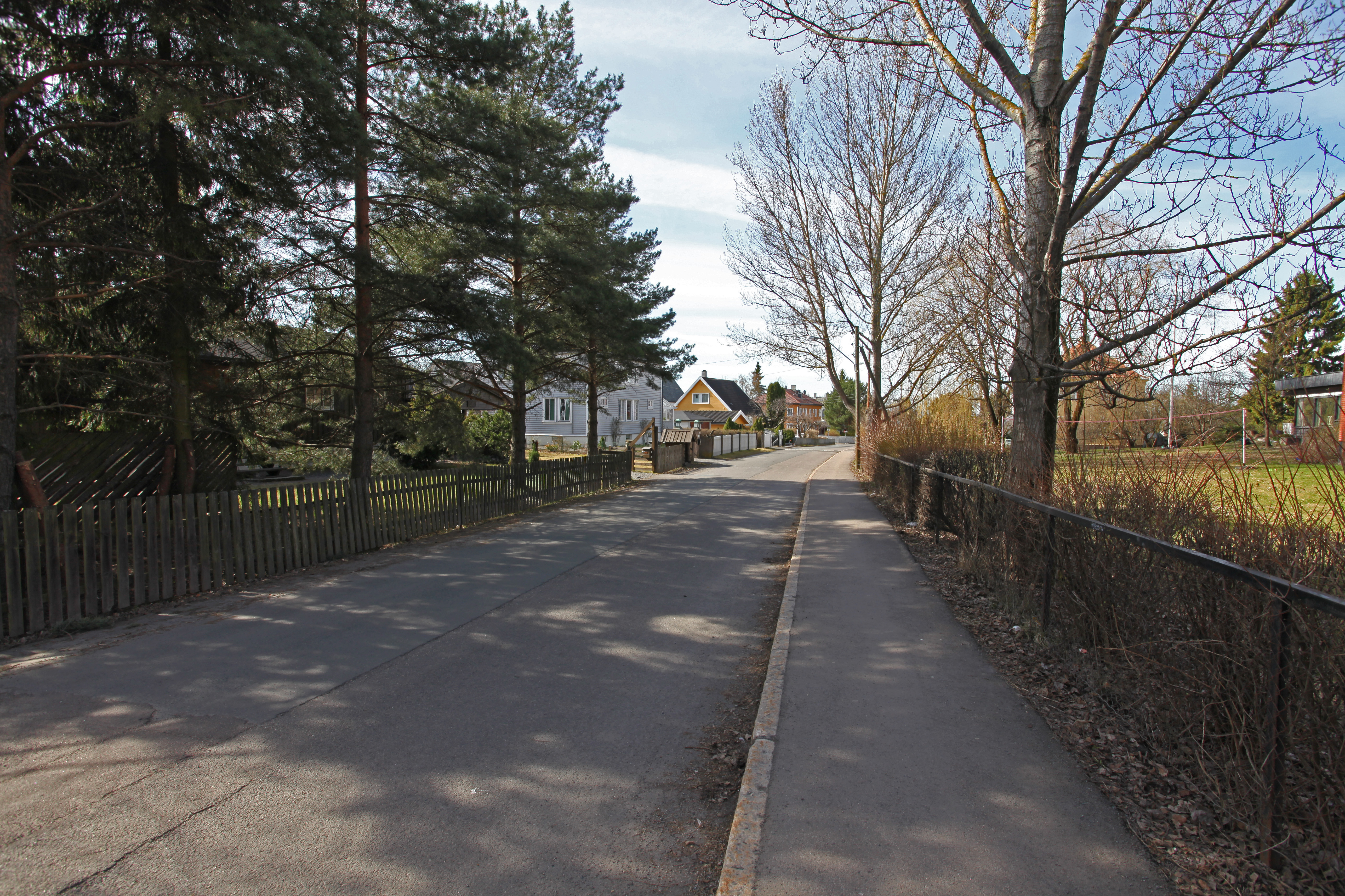 Picture of Adam Hiorths vei (Oslo - Norway)